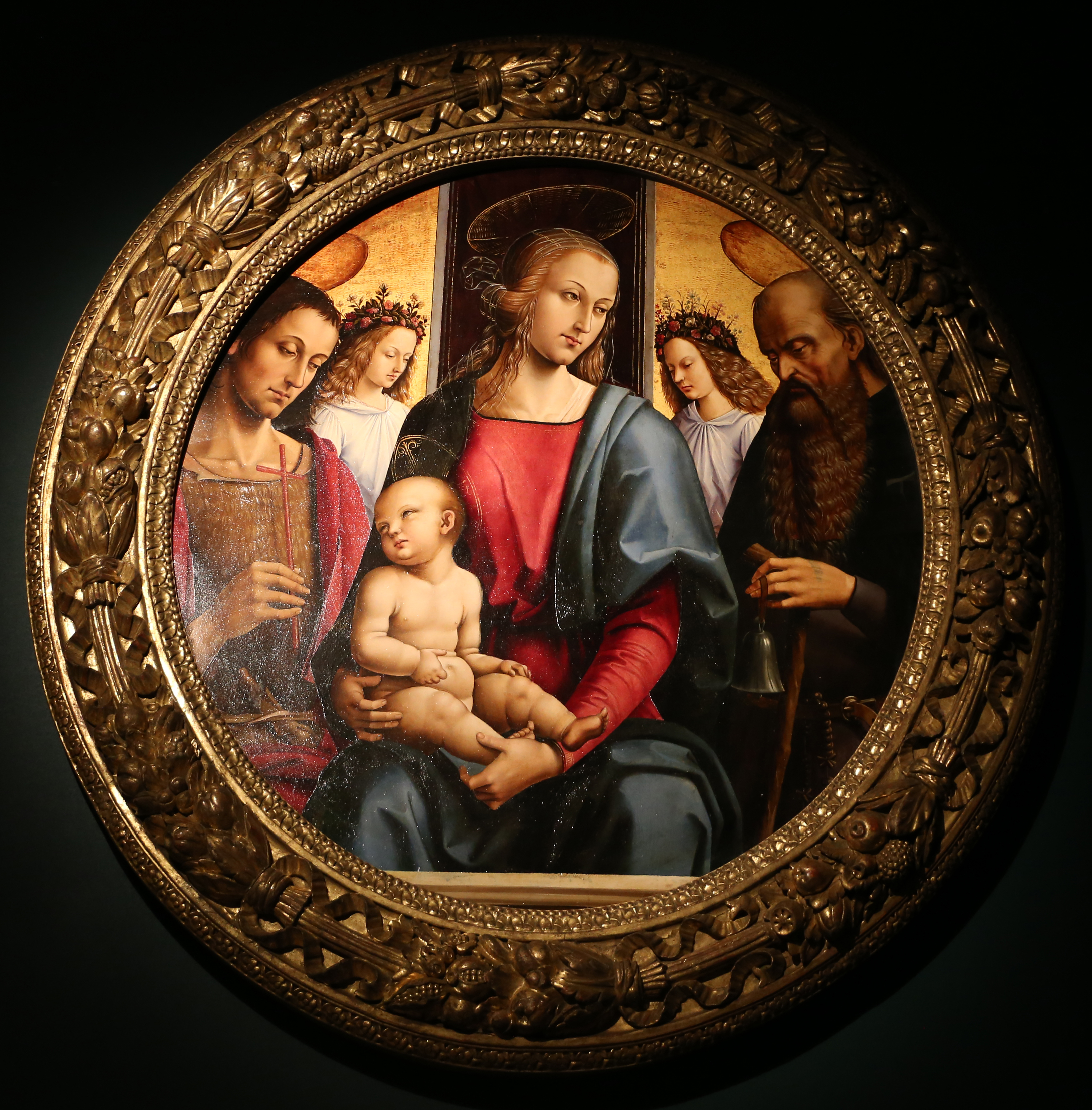 Courtesy of Agnews